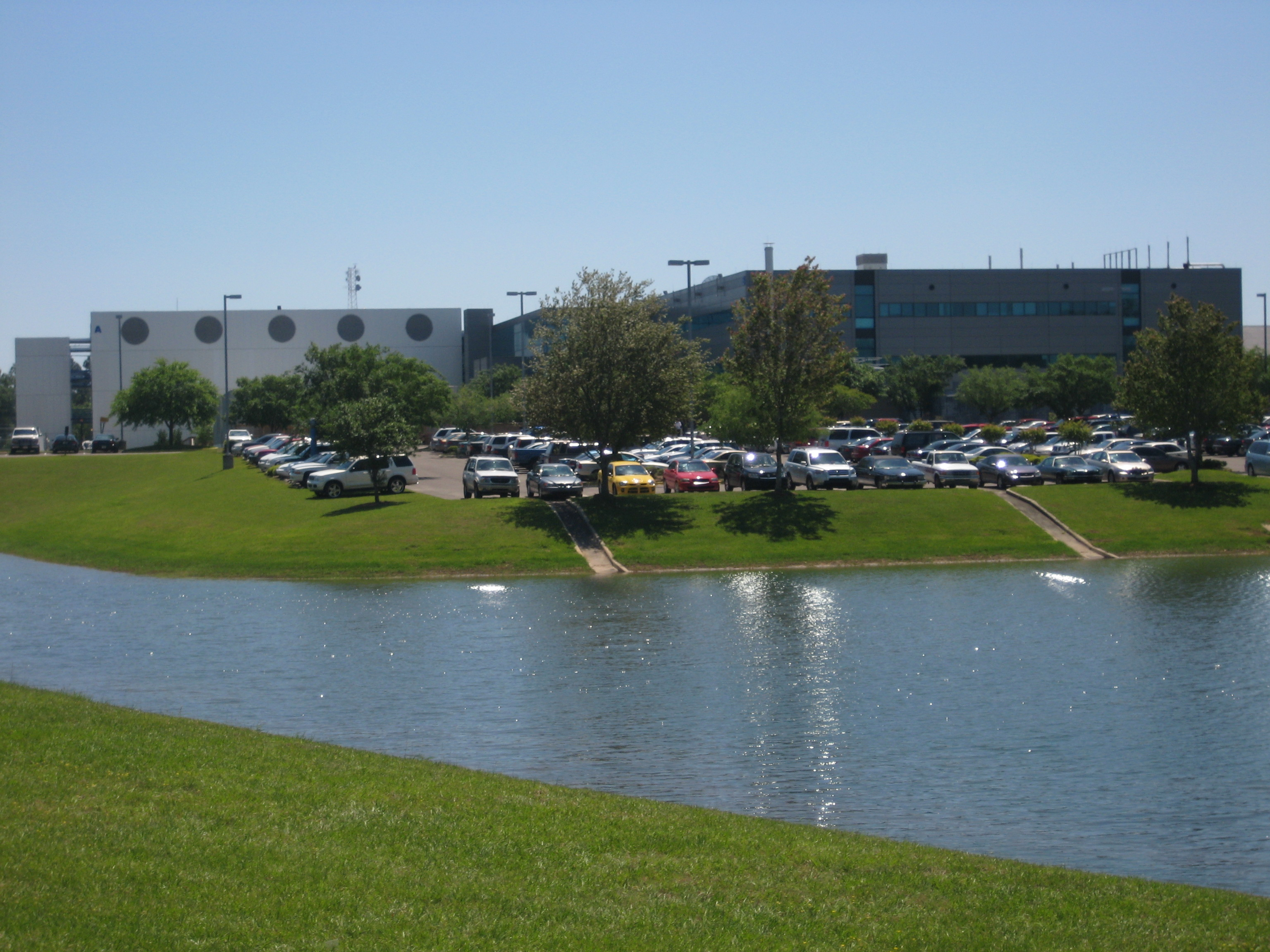 Southwest Campus of Florida State University: FSU College of Engineering buildings A and B